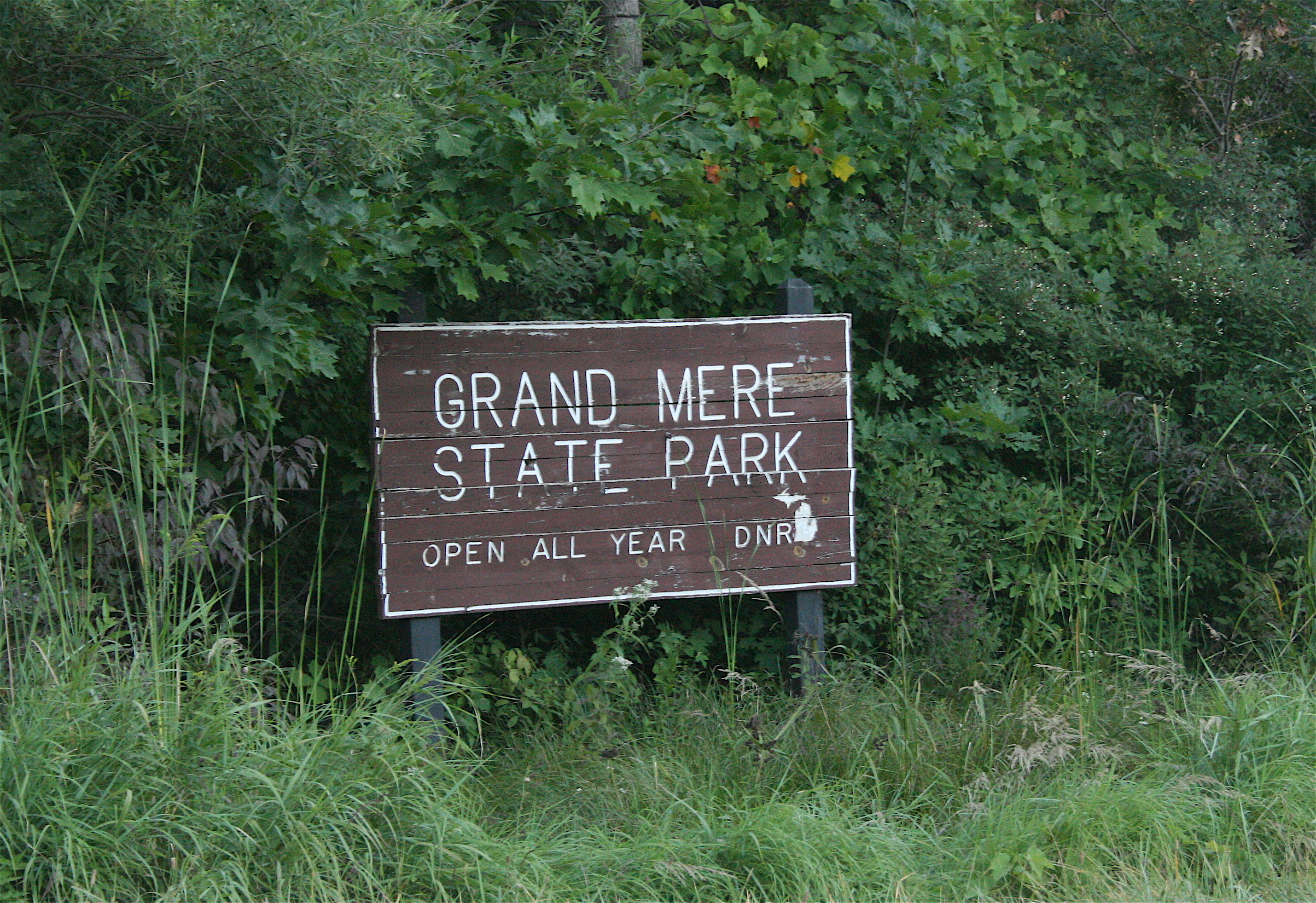 The entrance sign for Grand Mere State Park which is located in Michigan on Lake Michigan.